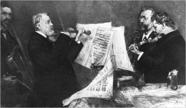 A picture of the Joachim Quartet, led by violinist Joseph Joachim.